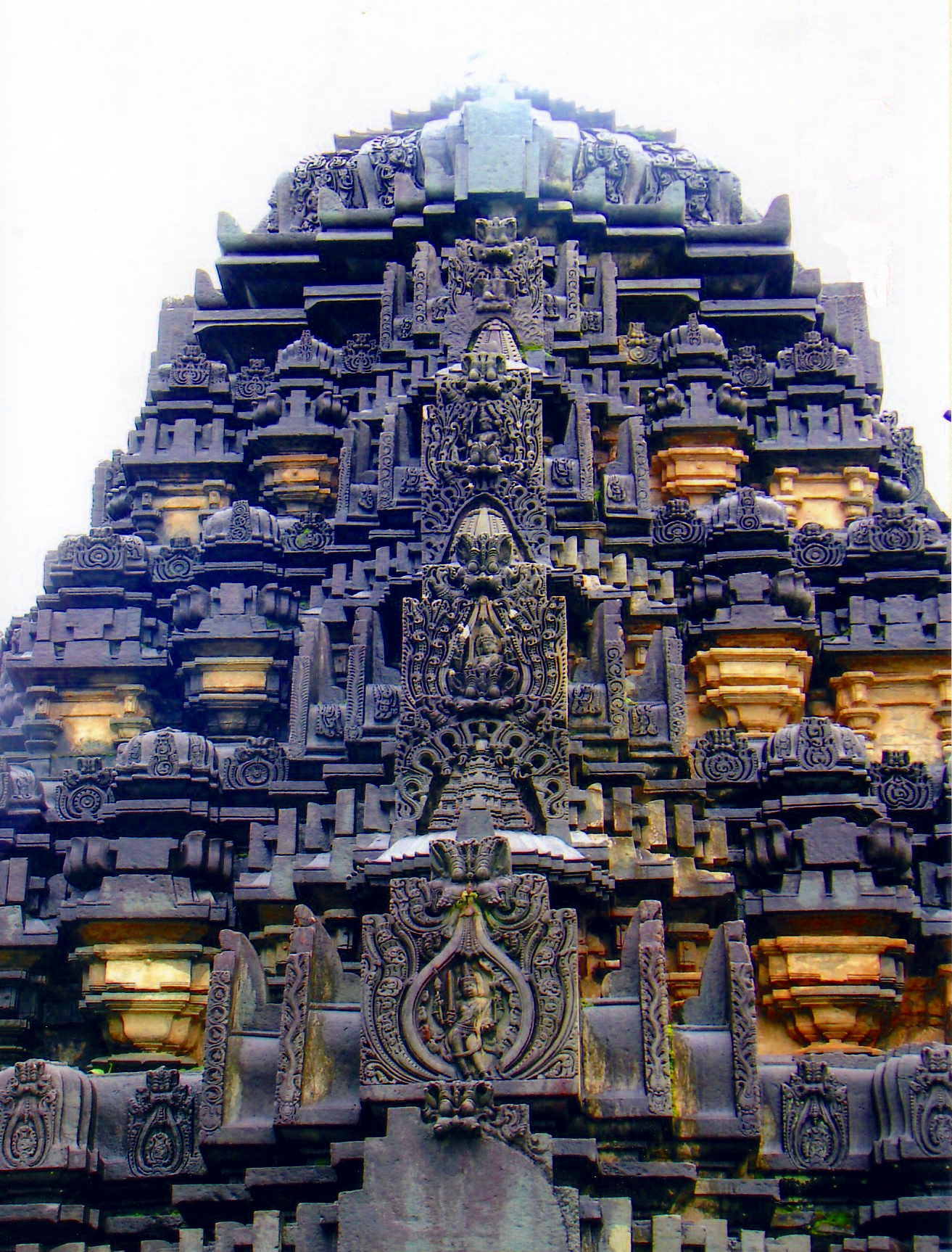 Photographed by self (Dinesh Kannambadi) at Kedaresvara temple (also spelt Kedareshwara or Kedareswara), Balligavi, Shimoga district, Karnataka state, India in July 2006